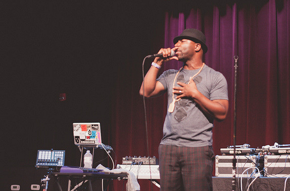 Rapper and producer Illogic performing live in 2010.